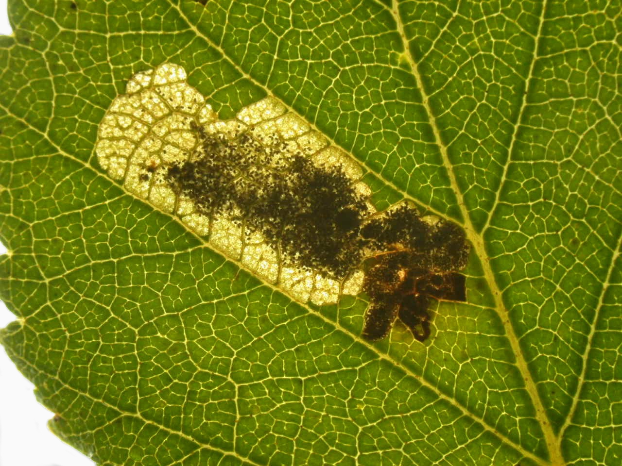 Ectoedemia minimella mine, Tir Stent, North Wales, July 2007